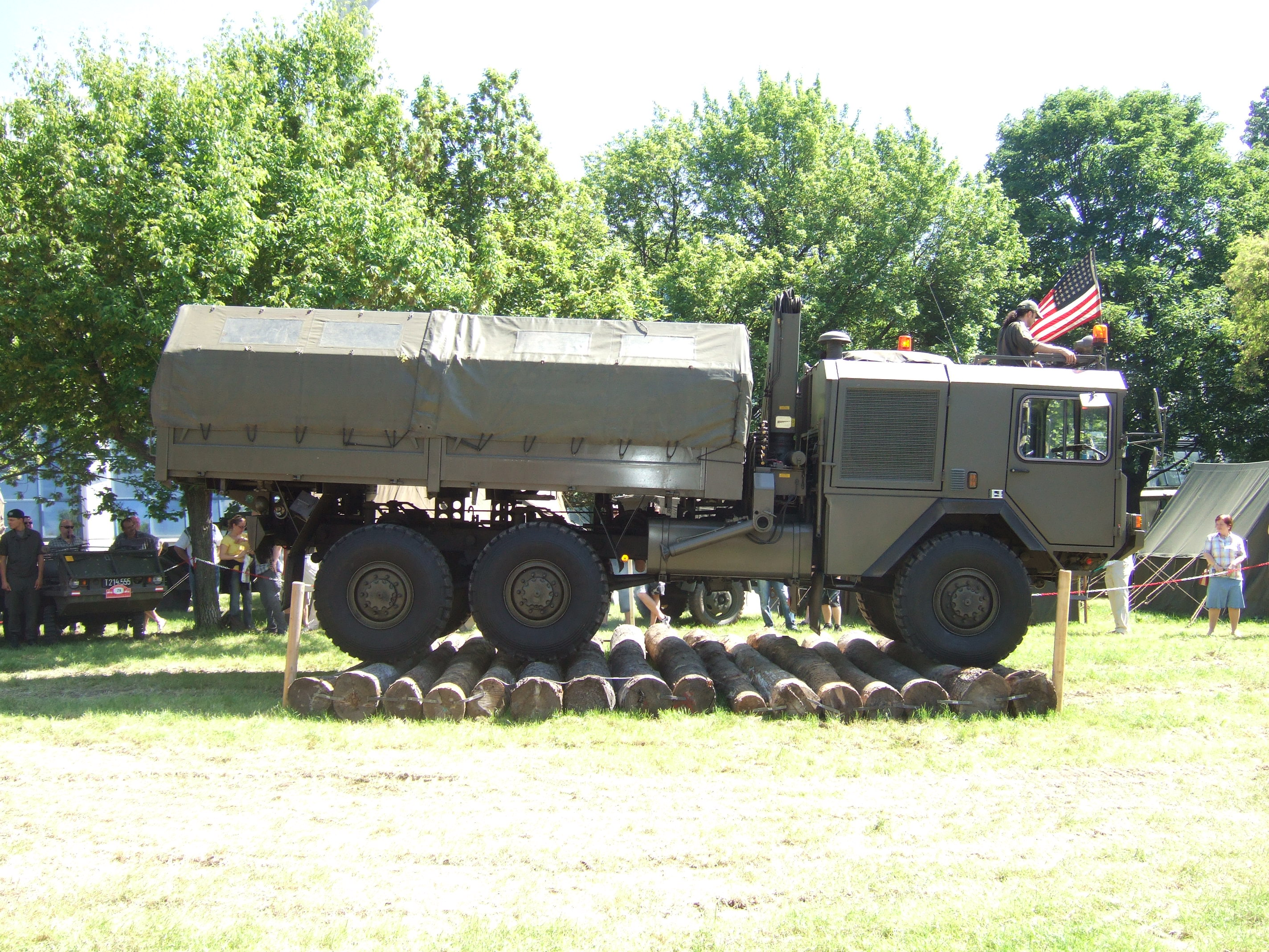 An ÖAF truck at a presentation at the event "Auf Rädern und Ketten" ("On tracks and wheels") at the Heeresgeschichtliches Museum in Vienna